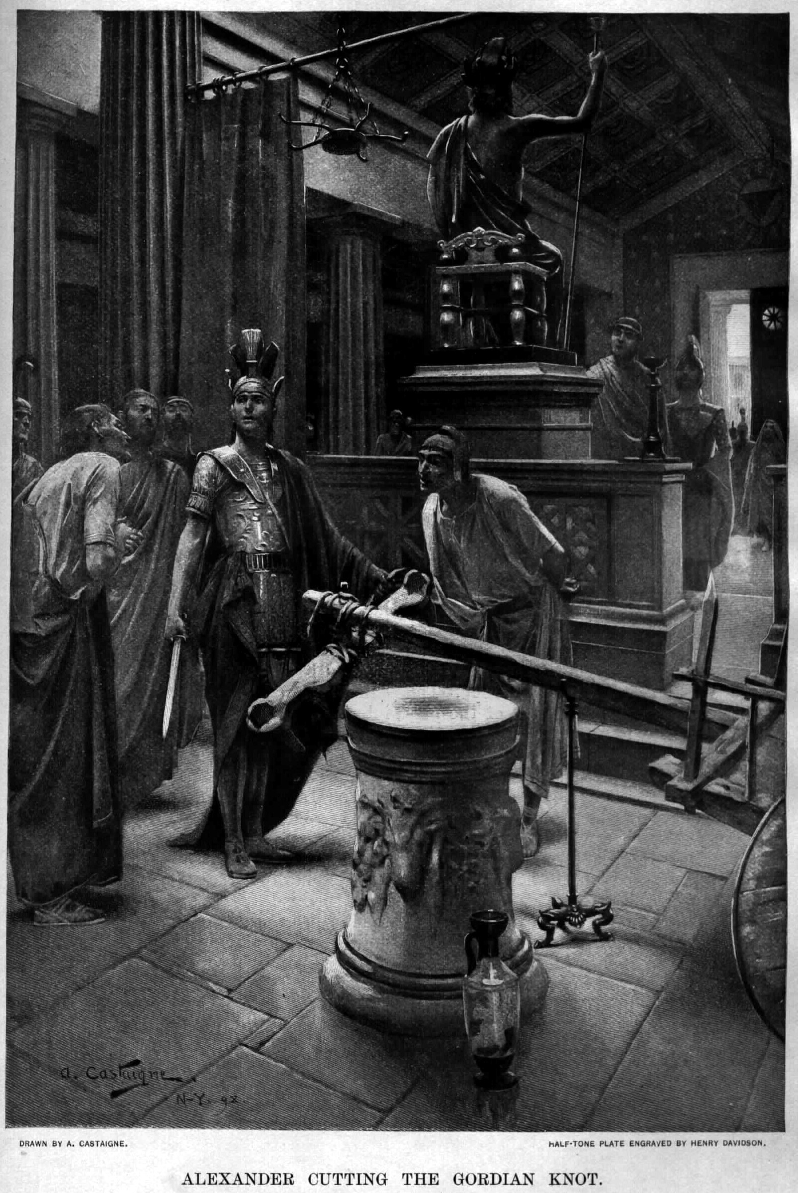 Alexander old drawings